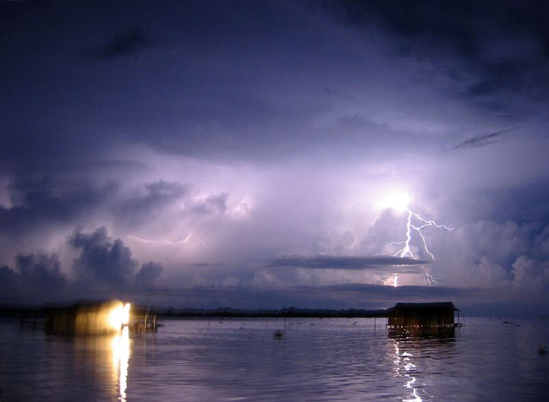 The Catatumbo Lightning in Venezuela is the world's largest single generator of ozone. Catatumbo lightning